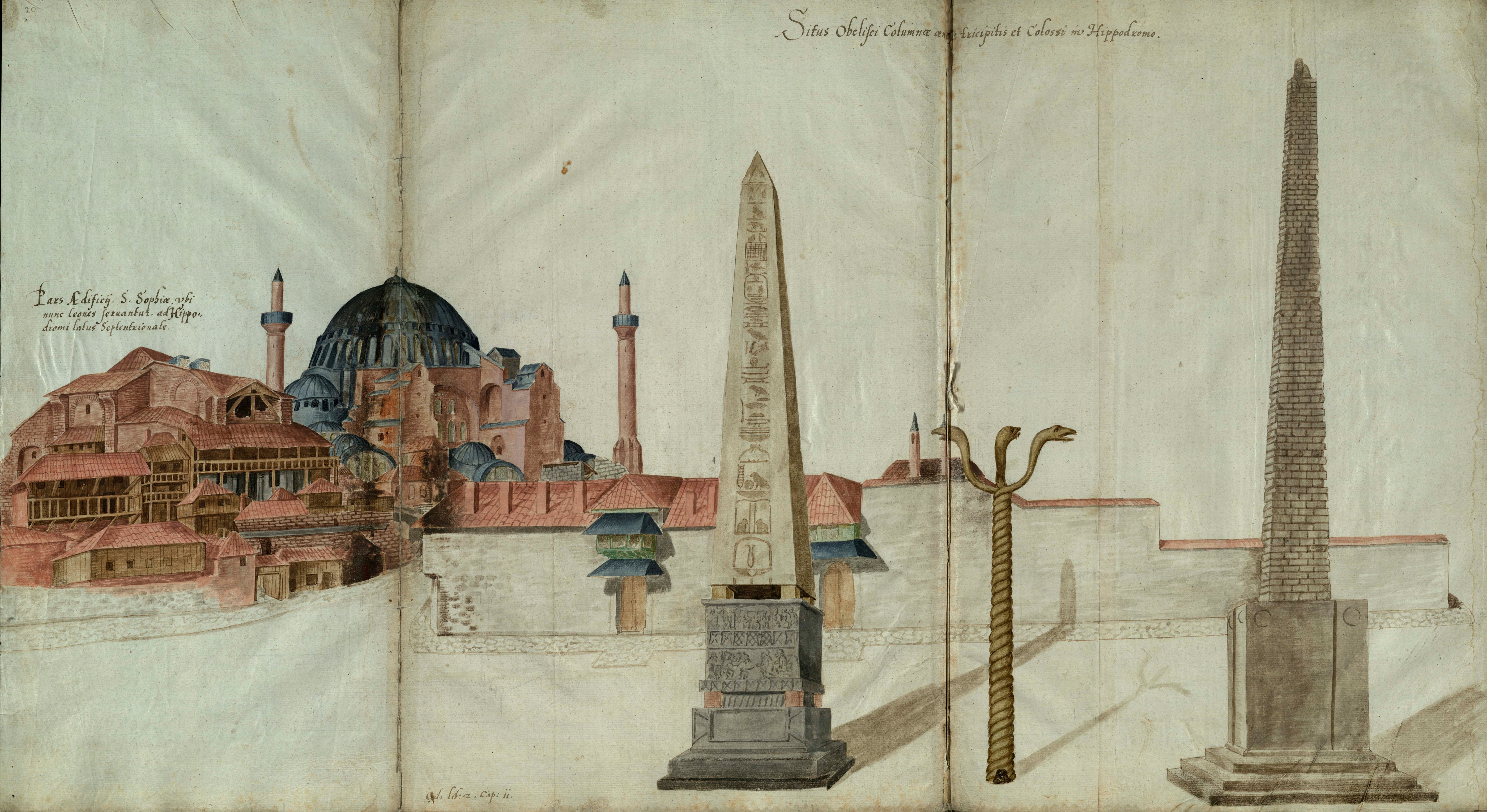 Anonymous water colour, attributed to Lambert de Vos, cropped from a folio of the Freshfield Album (Cambridge, Trinity College, ms. O.17.2)